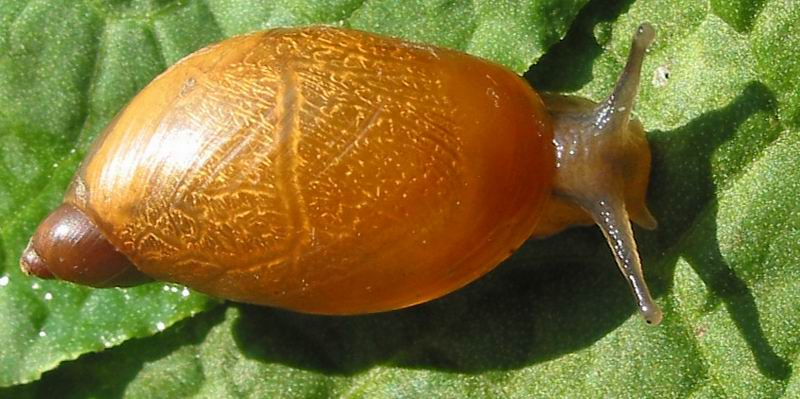 Photo of dorsal view of Succinea putris